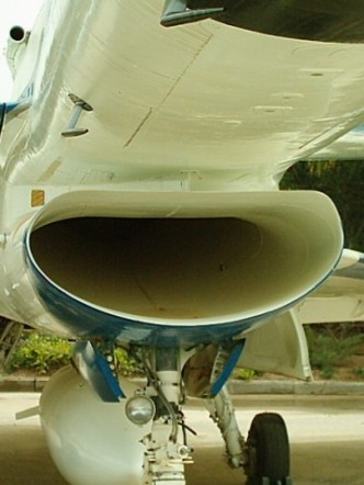 IAI Lavi at Israeli Airforce Museum - air intake